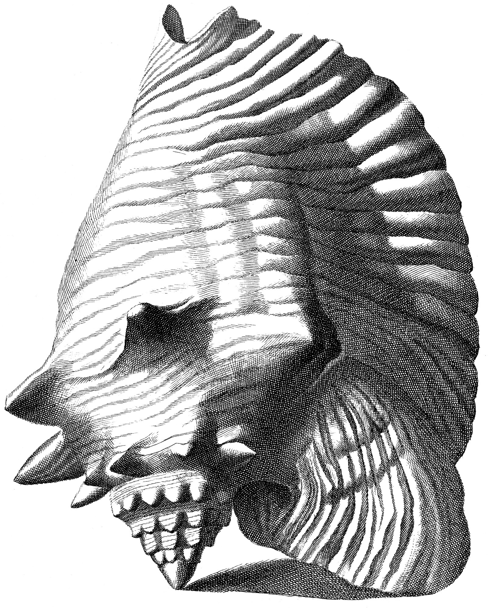 A drawing of a tropic snail Eustrombus gigas (Linnaeus, 1758)